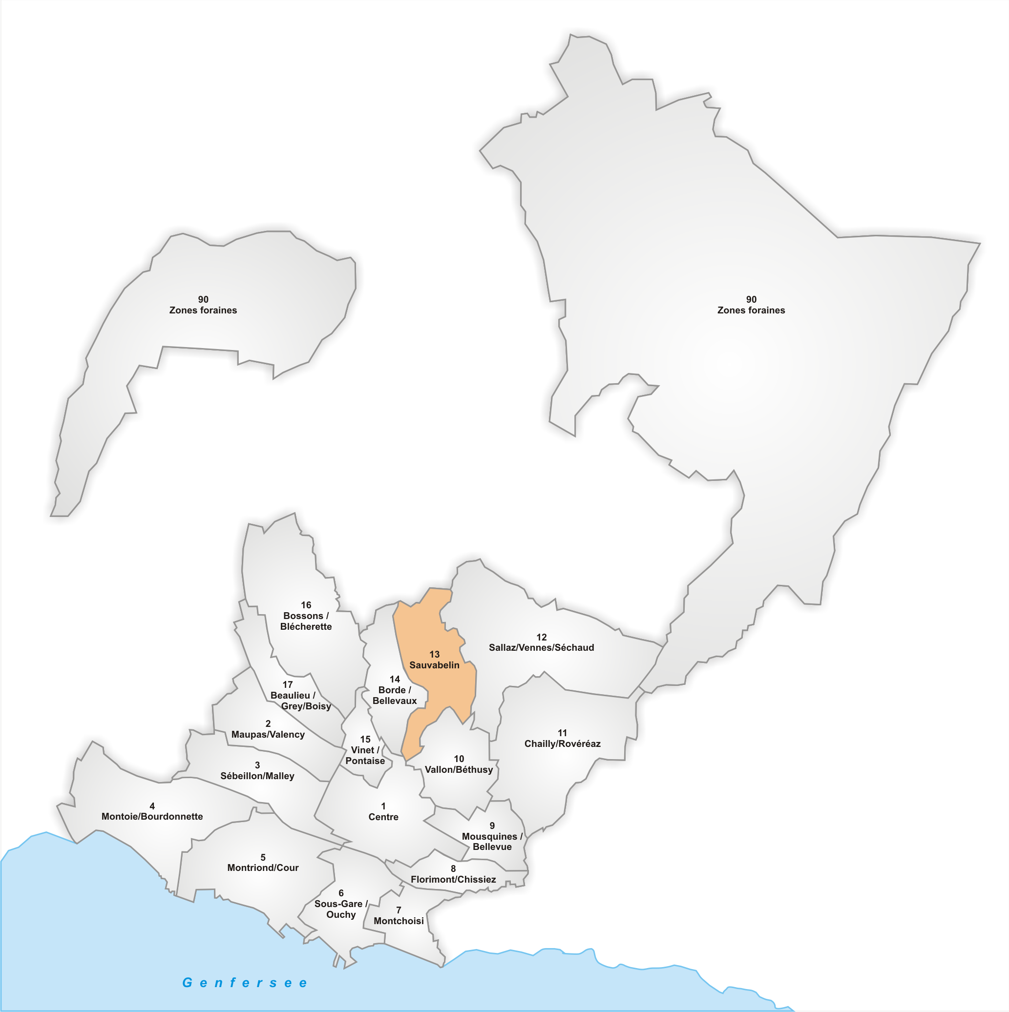 Lausanne Quarter 13